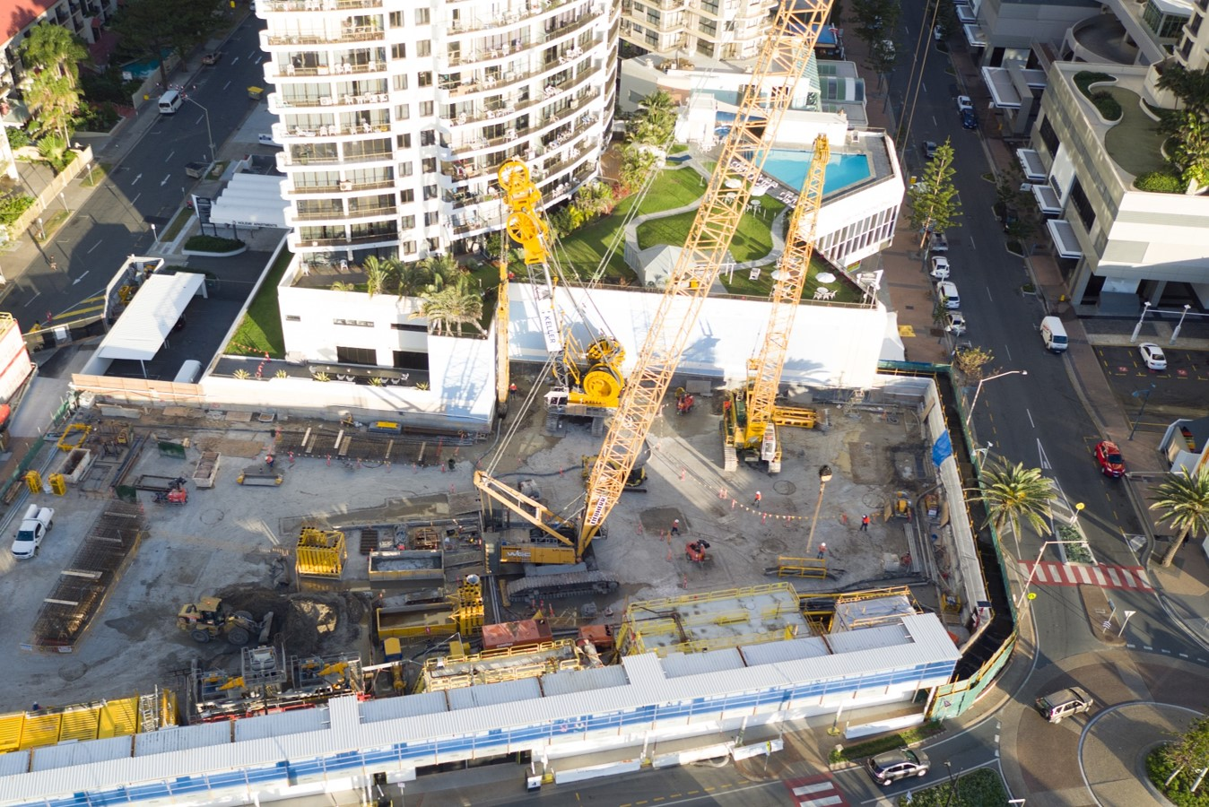 Keller completed the foundations for Spirit tower in Iluka, Australia